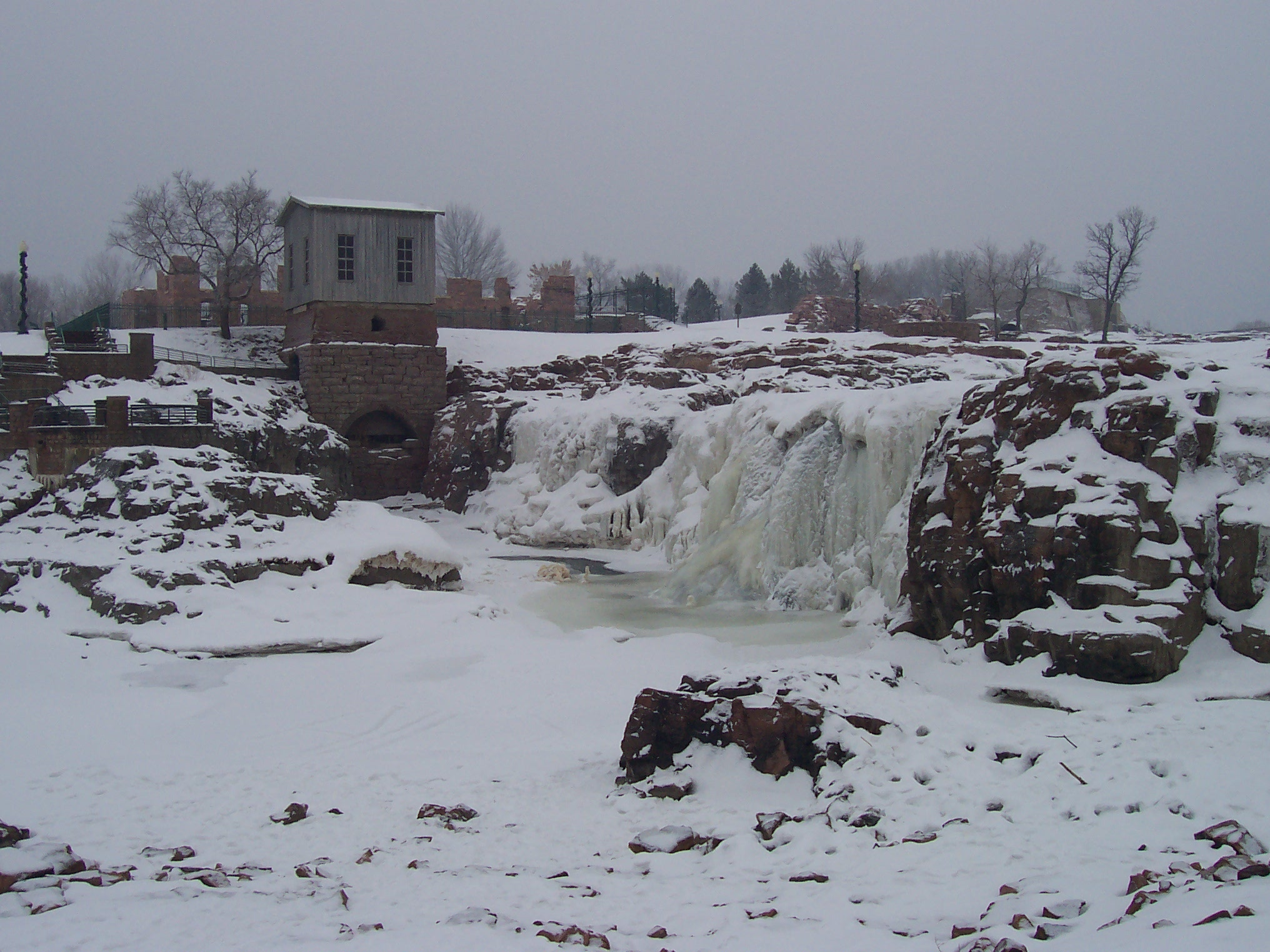 Picture taken by me, January 2007